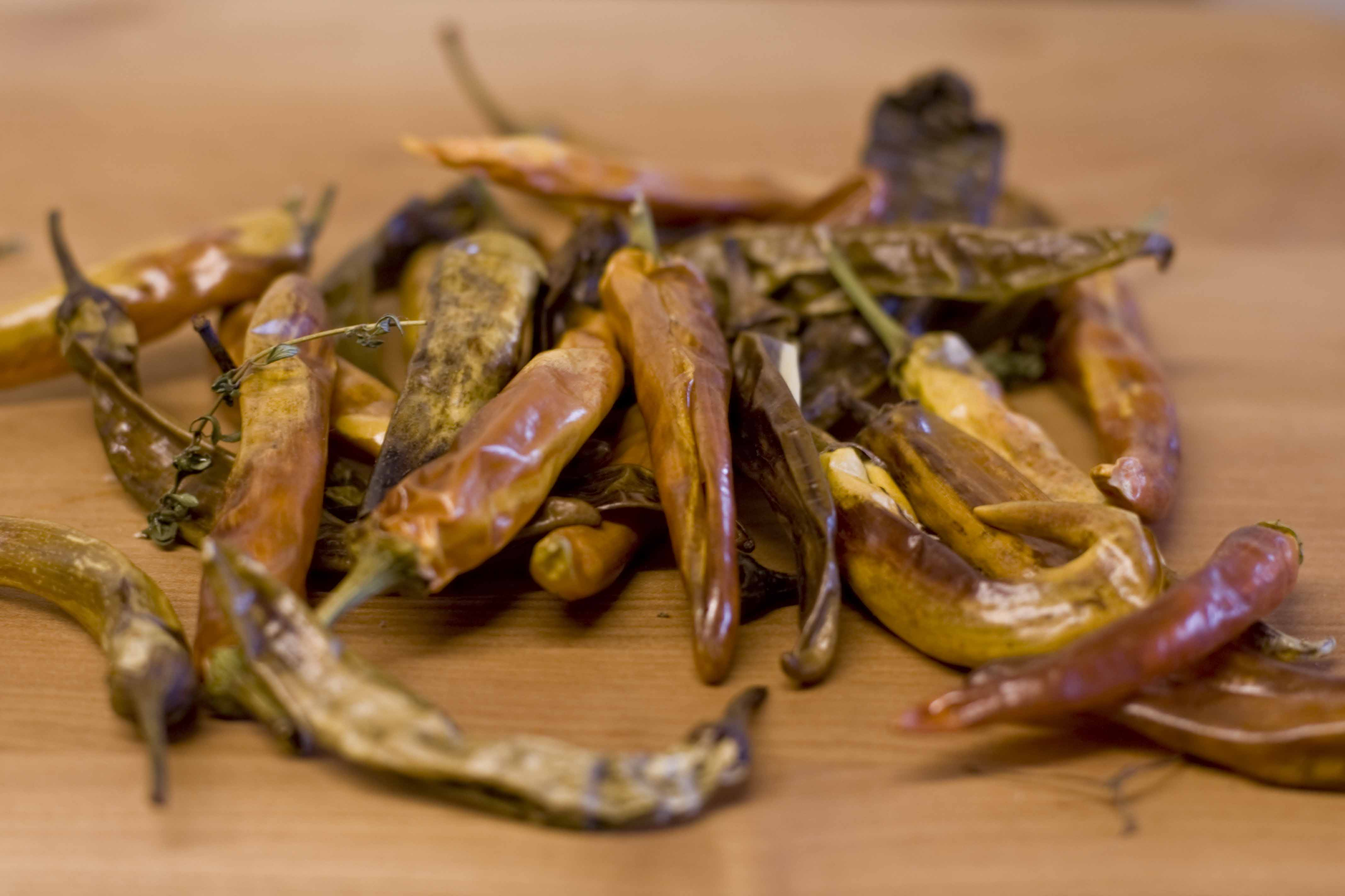 Chili